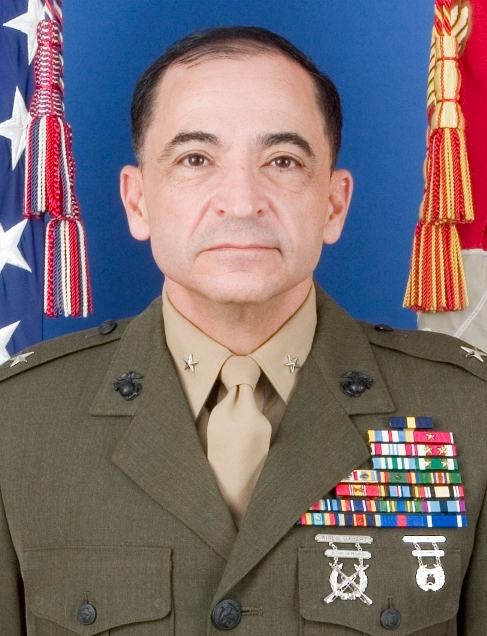 USMC Official photo